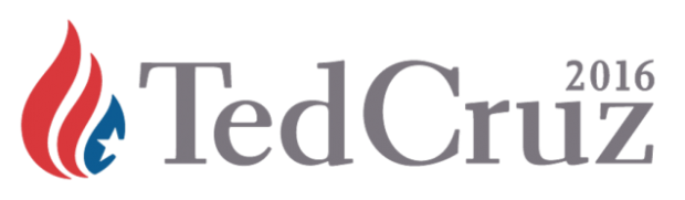 Cruz 2016